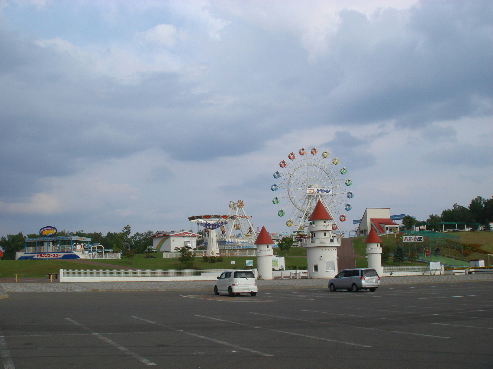 Michinoeki (Roadside Station) Ai-land Yubetsu in Yubetsu Town, Hokkaido, Japan